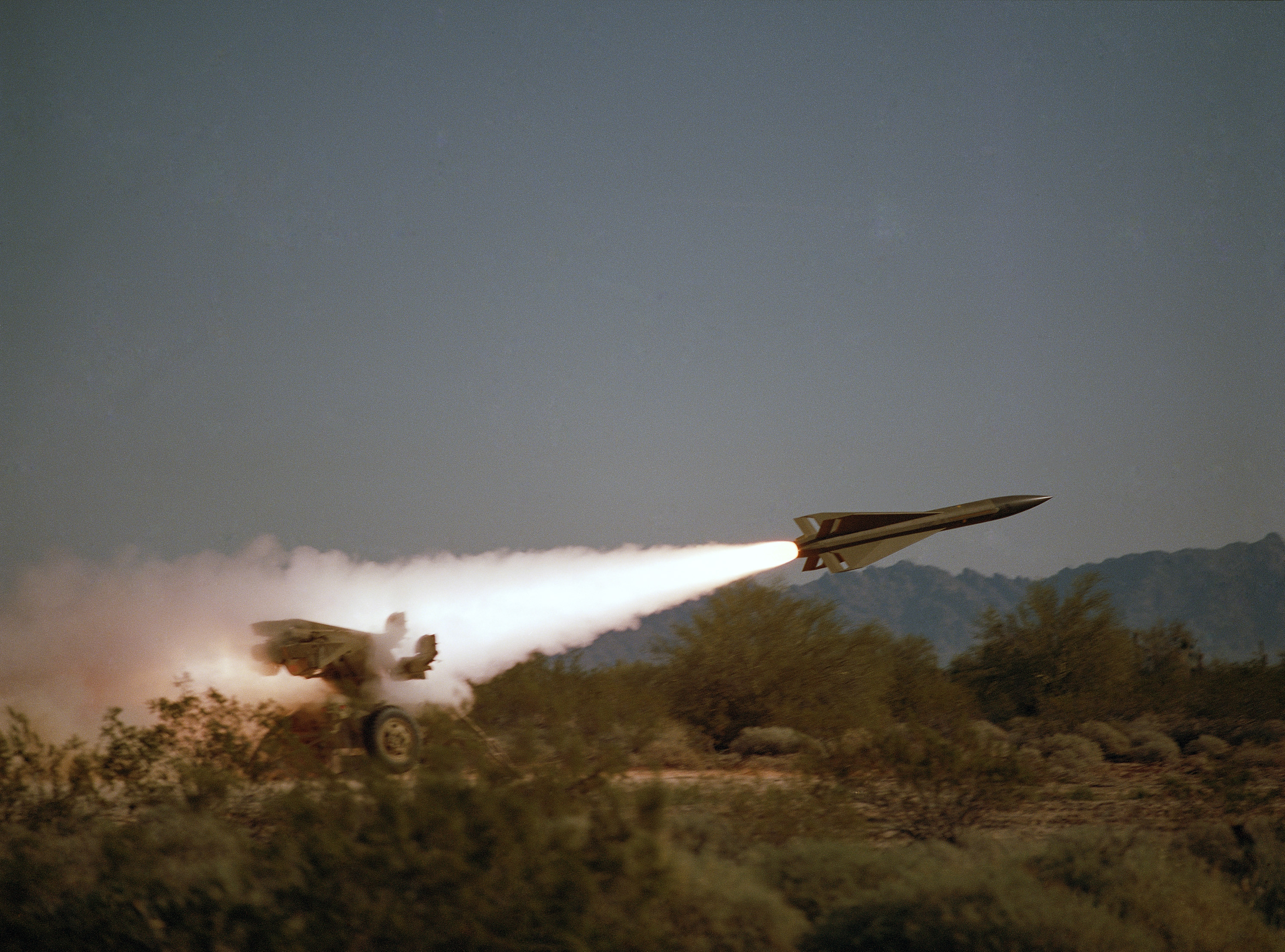 An MIM-23 Hawk surface-to-air missile is fired during a demonstration by the 2nd Light Anti-aircraft Missile Battalion, US Marine Corps. Location: TACNA, ARIZONA (AZ) UNITED STATES OF AMERICA (USA)